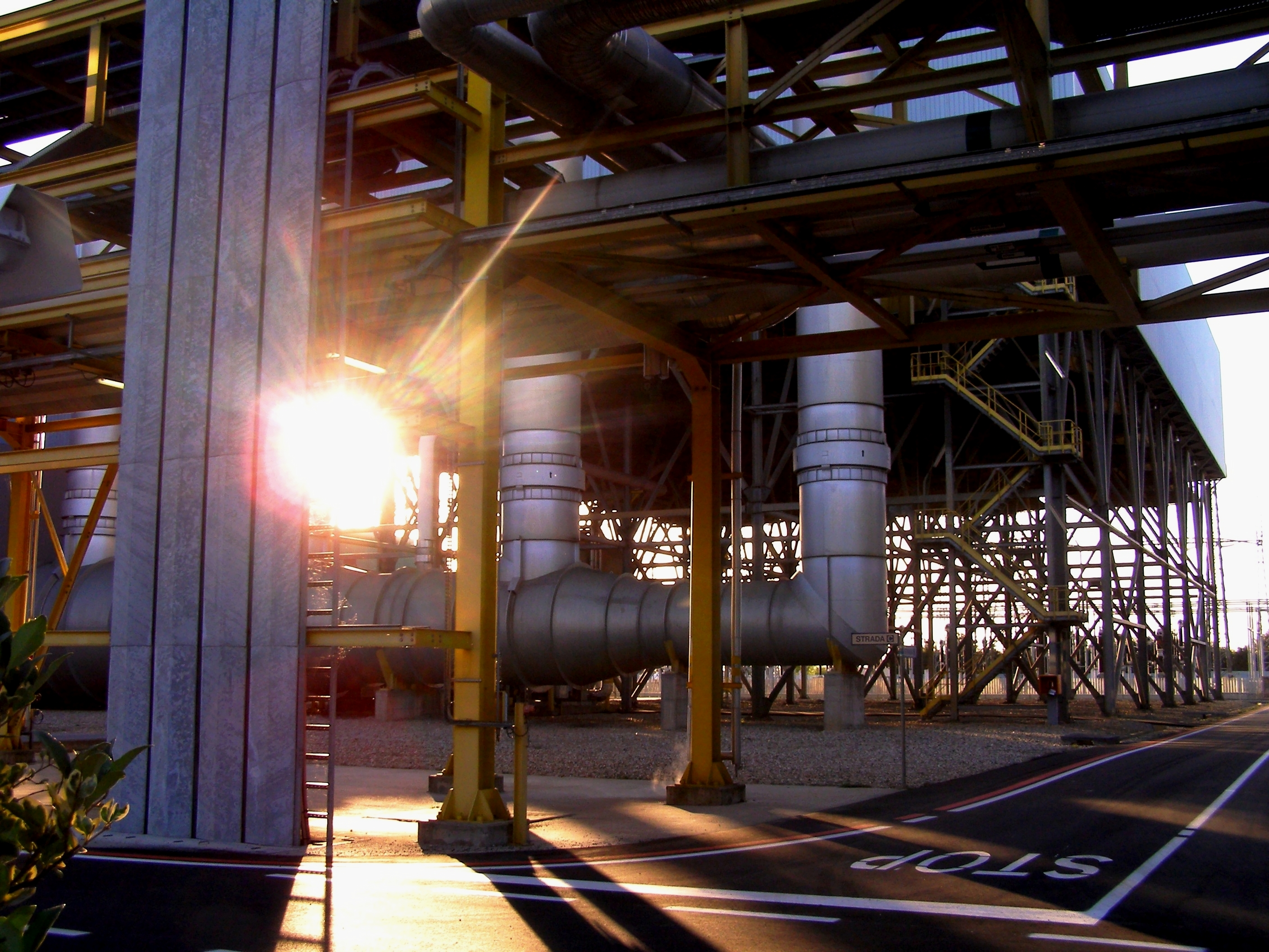 A natural gas power plant in Ferrera Erbognone, Italy, owned by ENI.